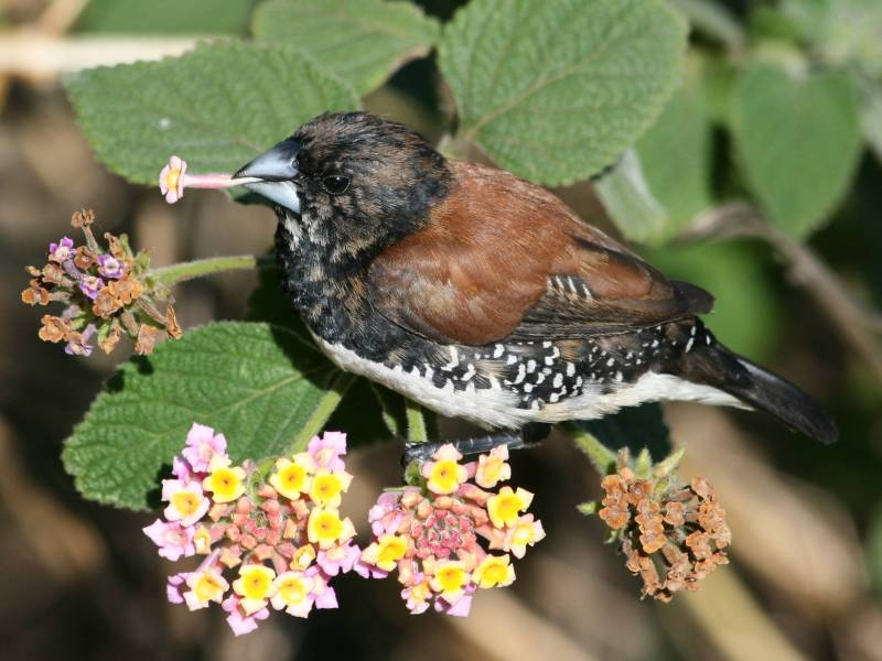 Immature Red-backed mannikin (Lonchura nigriceps) picking Lantana flowers, presumably for the nectar. Once considered a subspecies of Black-and-white Mannikin (Lonchura bicolor, syn. Spermestes bicolor), but many authorities now split the birds from south-eastern Africa as Red-backed or Brown-backed Mannikin (L. nigriceps).